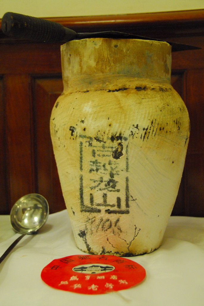 Classic Shaoxing wine from Xian Heng Inn. Image taken in Luk Yu Teahouse, Hong Kong.